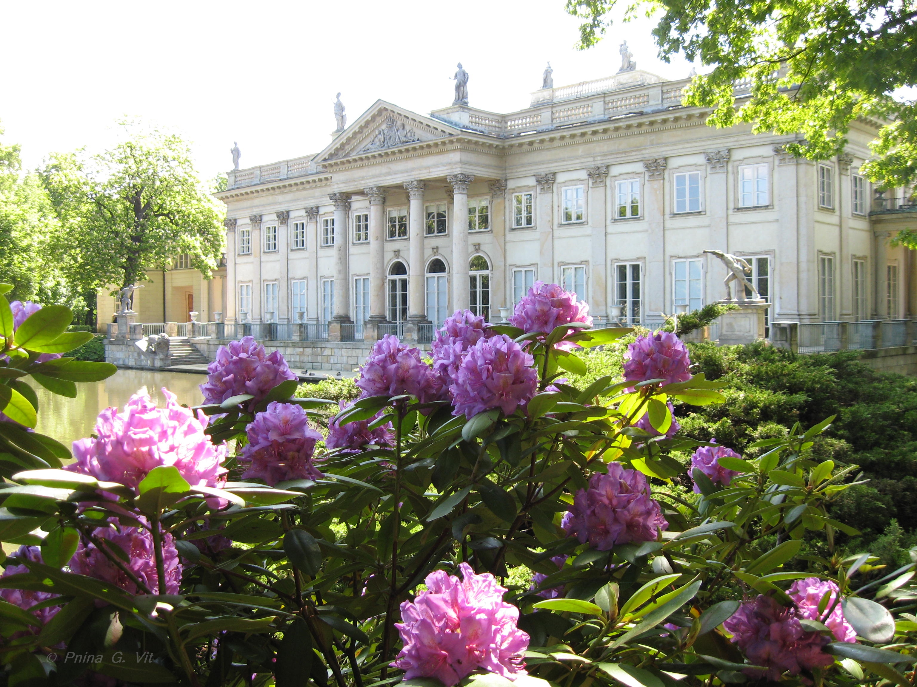 Warsaw, Lazienki Royal park, Palac on water, Krolewskie museum